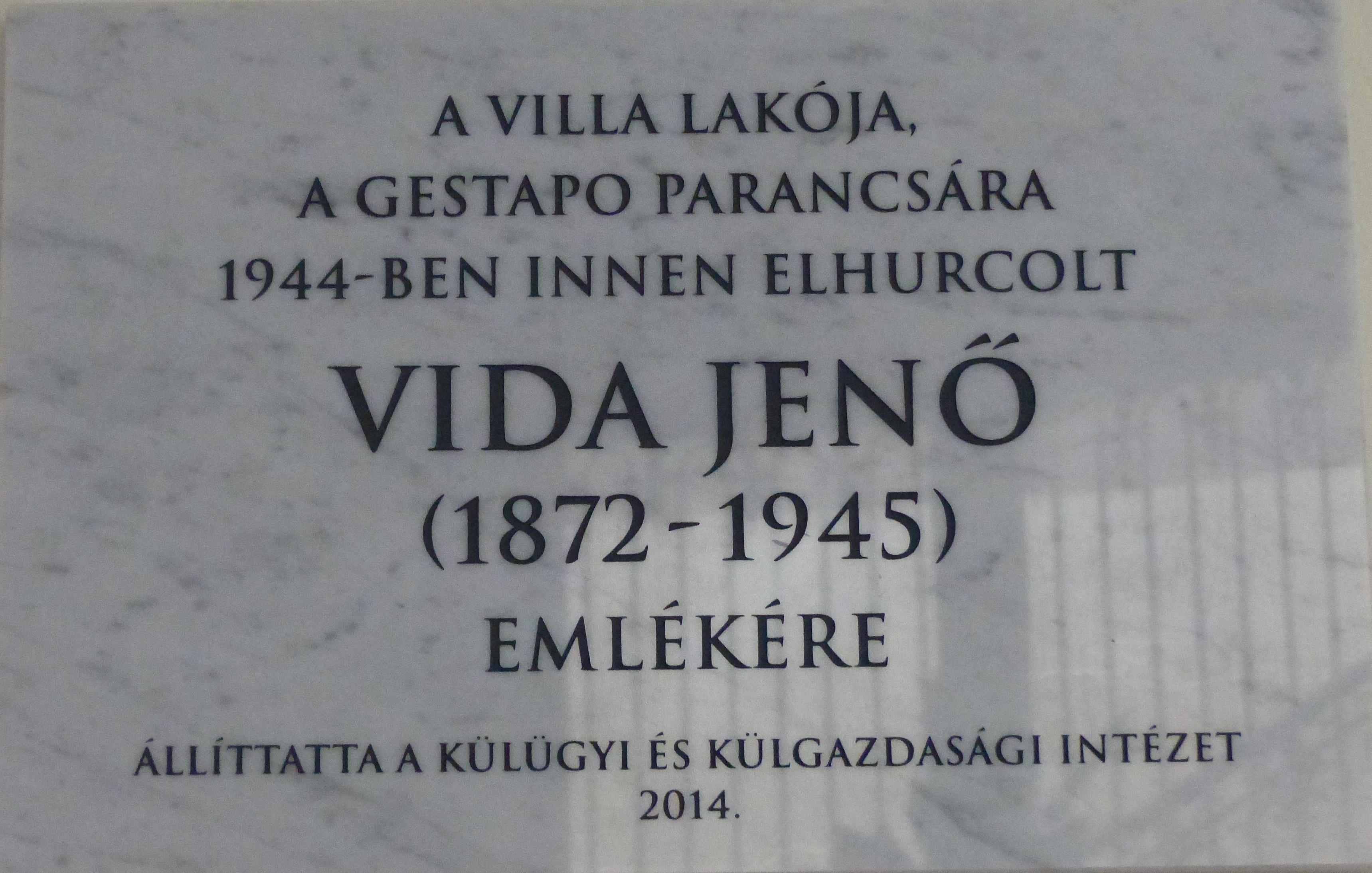 Vida Jenő plaque. Property of Magyar Külügyi és Külgazdasági Intézet, Budapest, Bérc utca 13 -15. Vida Jenő. CEO of Magyar Általános Kőszénbánya Részvénytársaság (MÁK), big businnes man, who belonged – together with Kornfeld Móricz, Ullmann György, Ifj. Chorin Ferenc and Egry Aurél - to the inner circle of Horthy Miklós, governor of Hungary.